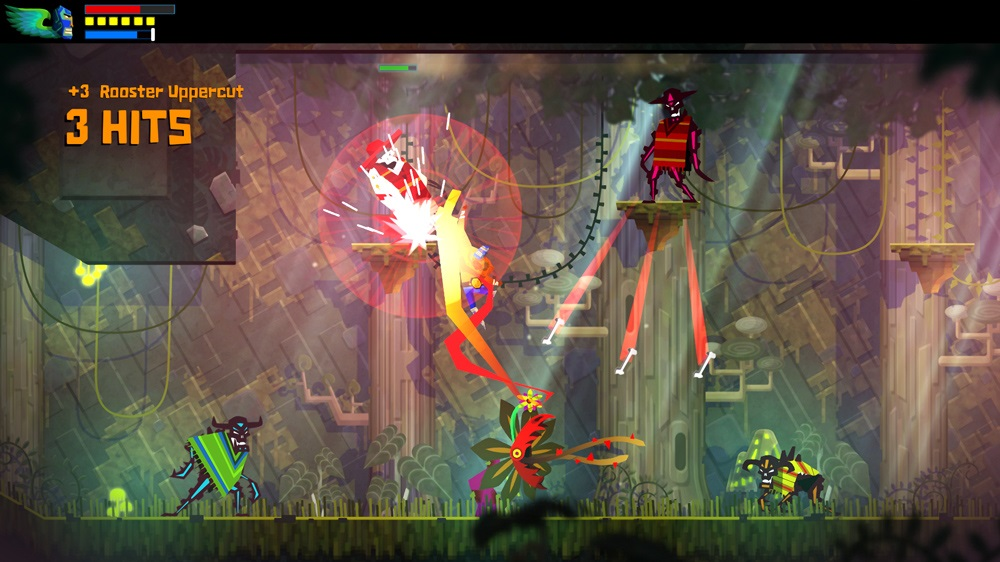 Screenshot from Guacamelee!